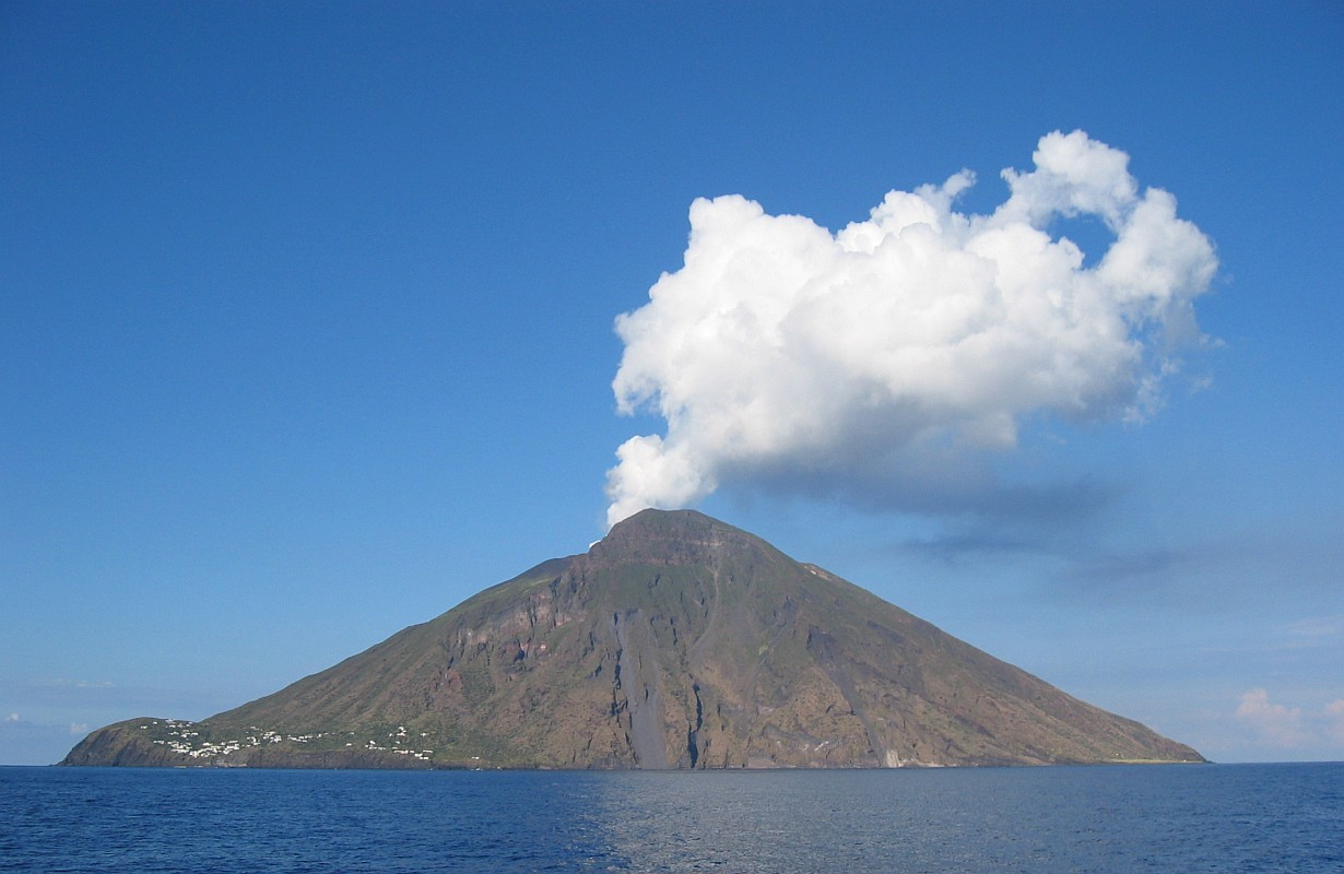 The Island of Stromboli, Shot 2004 Sep 28 by Steven W. Dengler. Autor : Contact steven[at]dengler[point]net for larger resolutions of this photo, or to inquire about commercial use.